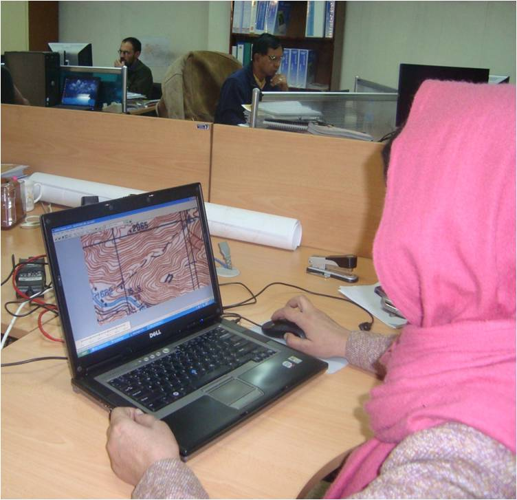 Women are a growing force in the Afghan workplace. To advance the role of women in society, the U.S. Government supports women entering into the science and engineering fields. Female engineers in Afghanistan are strong pioneers who have broken through gender stereotypes to contribute to their country’s development. Fatima Konistany is an engineer with USAID’s Afghanistan Infrastructure Rehabilitation Program (AIRP). With a master’s degree in roads engineering from Kabul Polytechnic University, she has helped to design urban, rural, and provincial roads. “This is a male dominated profession,” said her supervisor. “To find an Afghan woman who is an engineer with a master’s degree in engineering is a real credit to her.” Fatima liked math and science as a student and her father and uncle, both engineers, encouraged her. Now a mother herself with children following her example, she is quick to stress the teamwork aspect of engineering. A good road, she says, results from the expertise of many engineers – from surveyors to geometric designers. Mrs. Konistany’s specialty is hydraulic engineering. She gauges water flows and run-offs to properly design road structures like curbs, medians, culverts, and bridges. Feeding data from topographical studies and survey teams into advanced software programs, she creates maps and models that show where concrete structures are needed. Her current area of responsibility is the Bamyan-Dushi Road, a 164-kilometer route that will provide a year-round alternative to the treacherous Salang Pass. She estimates that the route will need 860 culverts to maintain water flow and prevent flooding. As an Afghan, Mrs. Konistany brings a special commitment to the rebuilding of her country. “When I am on the Bamyan-Dushi Road,” she said, “I know that I built that road, that I was part of it. When I see vehicles and people using the road, I feel very good.” Her motivation, she says, is simple: “I work for my people.”